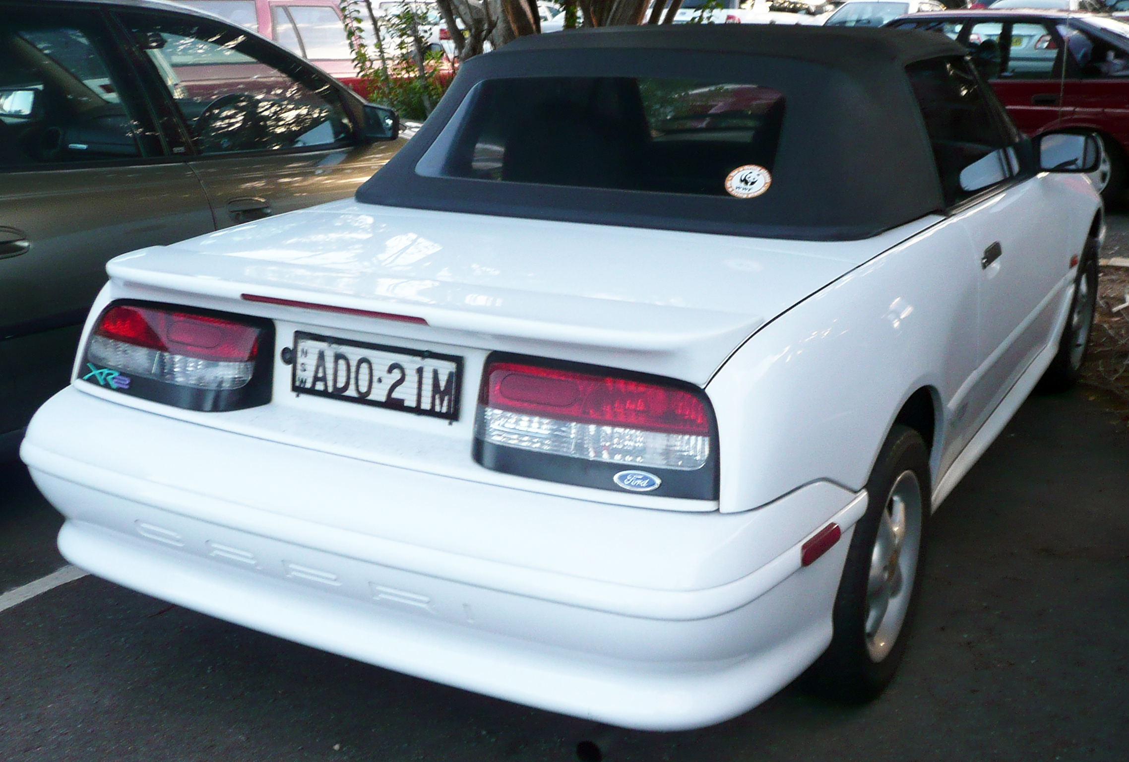 1993 Ford Capri (SE) XR2 convertible. Photographed in Sutherland, New South Wales, Australia.